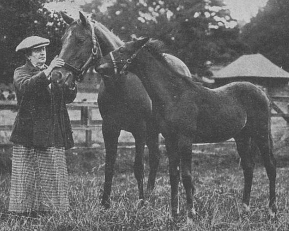 Martha Lucy Hennessy, Lady James Douglas, was the widow of Lord James Douglas, a younger son of the 8th Marquess of Queensberry. She owned a stud farm at Harwood Lodge, Newbury where she bred the Oaks winner Bayunda (dam of that horse pictured, Jessica by Eager with her 1919 colt sired by Chaucer) and Triple Crown winner Gainsborough.